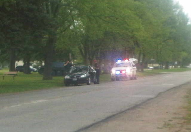 Military Police Traffic Stop